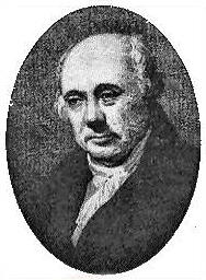 Photograph of Portrait of William Symington. Before 1831, engraving, artist unknown. In the public domain. Source [1]